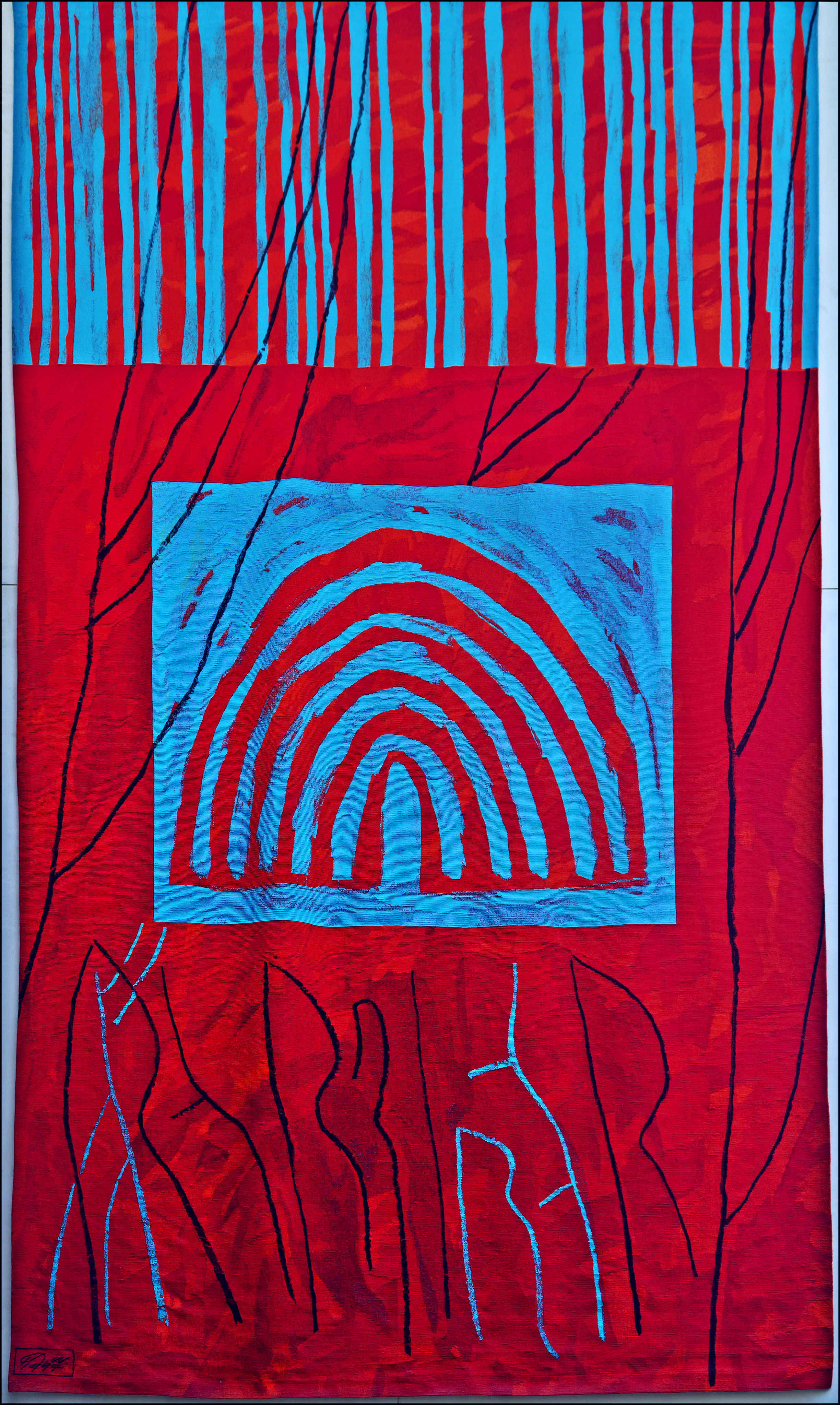 Designed by Kate Whiteford. Woven by the Edinburgh Tapestry Co. National Museum of Scotland, Edinburgh. Corryvrechan is the third largest whirlpool in the world. It is in the channel between the the northwest of Jura and the small island of Scarba.